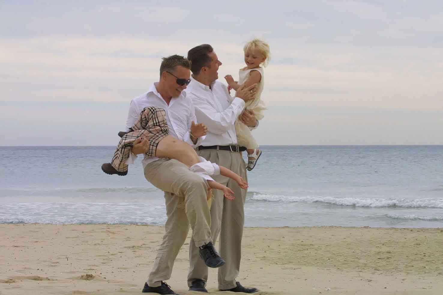 Barrie with family. First gay couple to be legally fathers in the UK